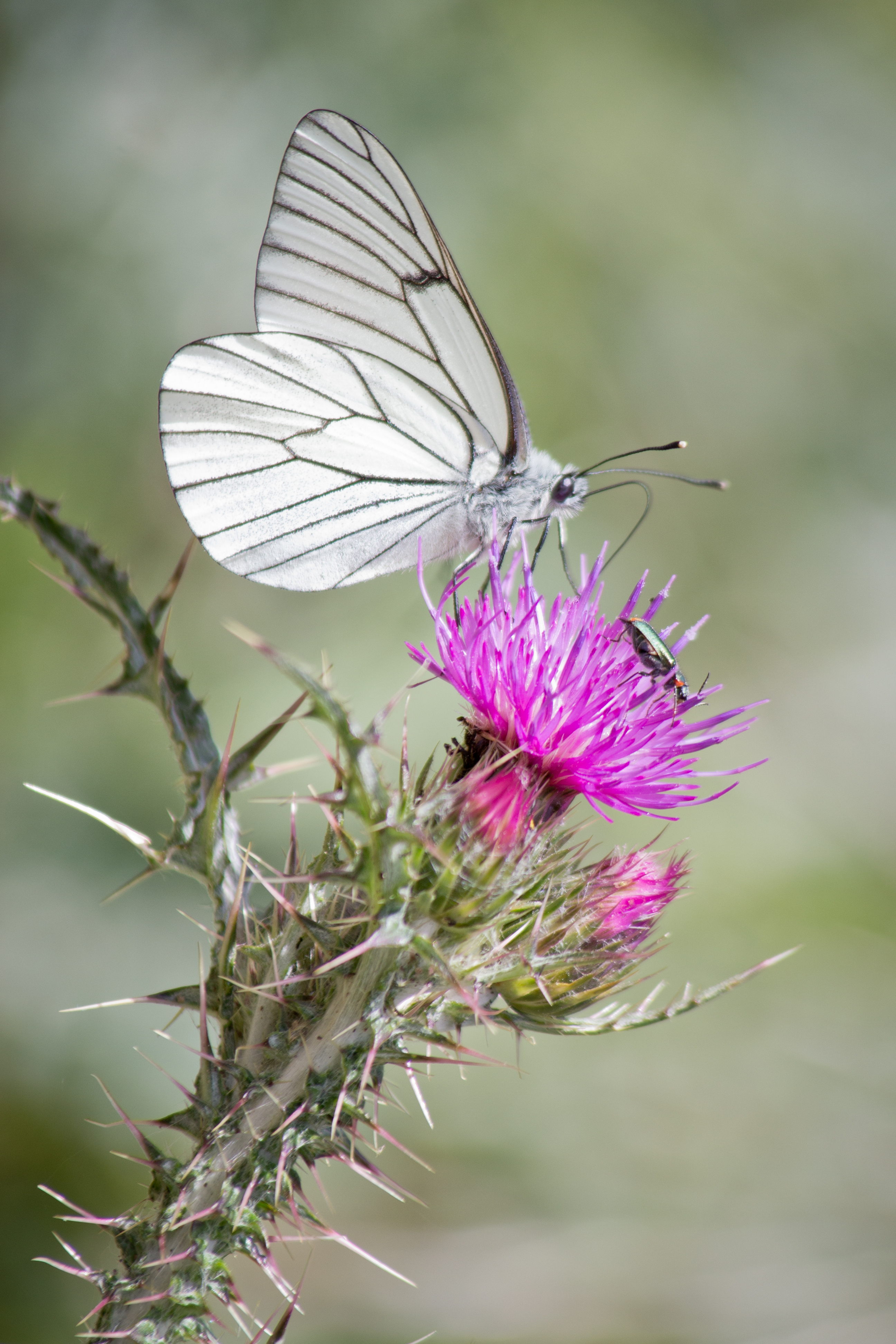 Black-veined White (Aporia crataegi) on a thistle (possibly Cirsium palustre) next to a beetle (possibly Anogcodes seladonius or Psilothrix viridicaeruleus).